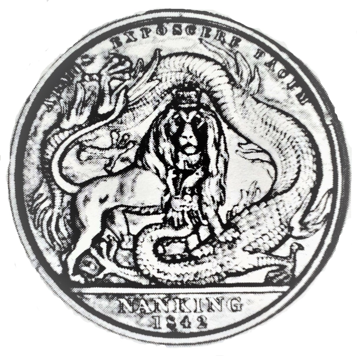 Original design for British 1842 China War Medal , not finally used.